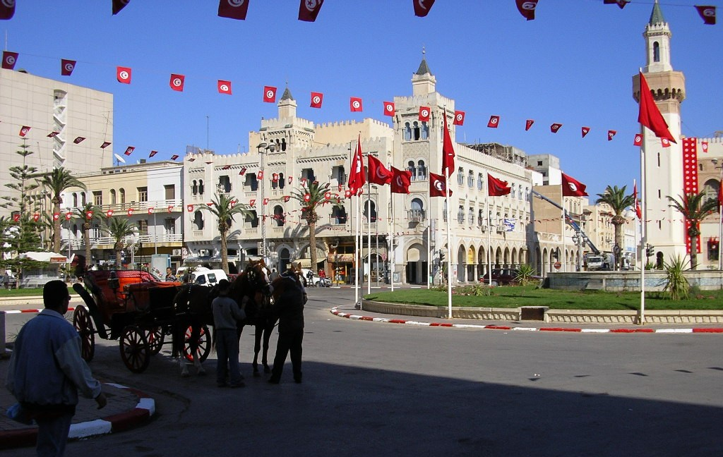 Sfax, Looking across the Place de la République towards the Town Hall. May 2005.